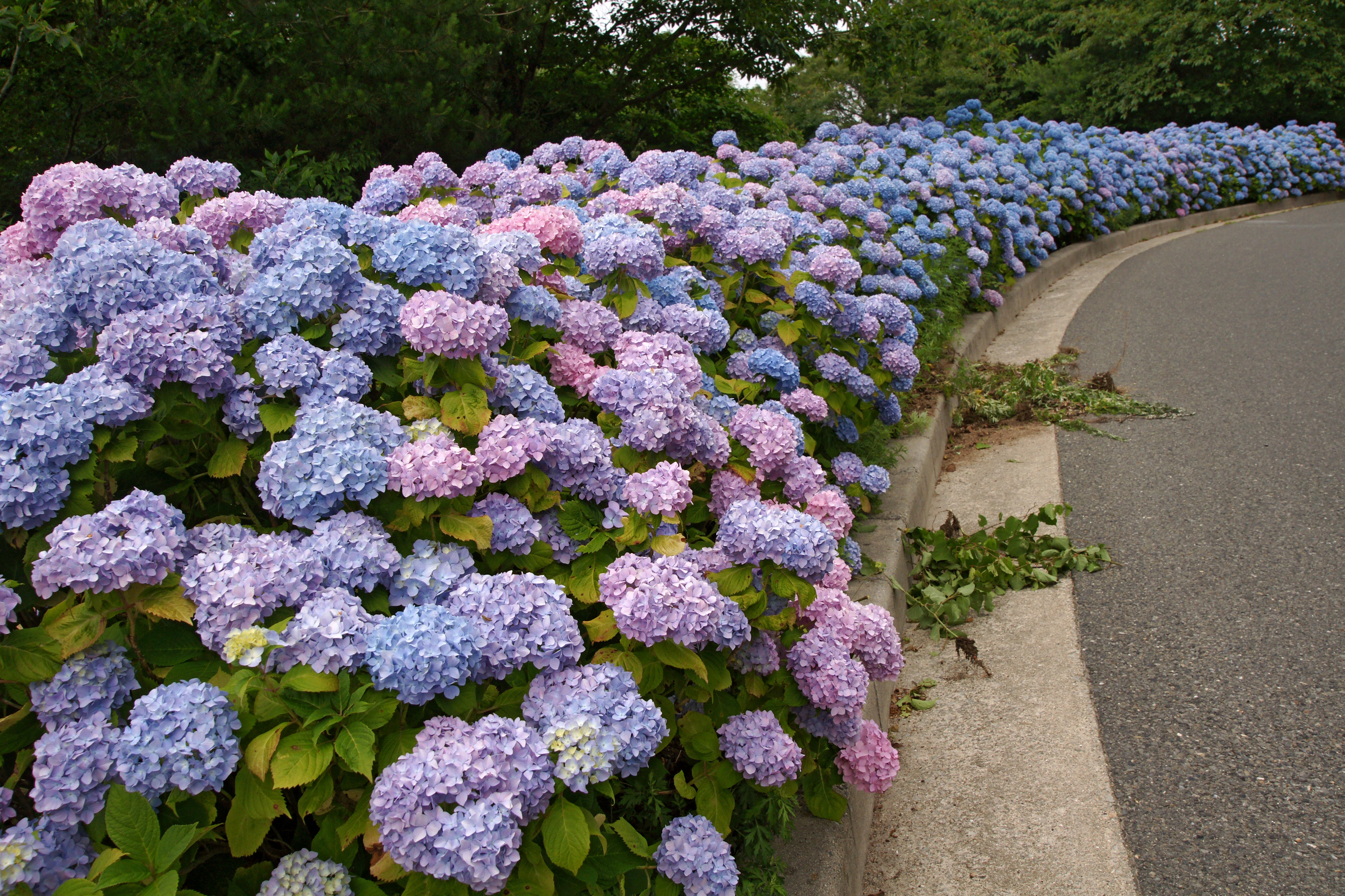 Okumaya Driveway, Kobe, Hyogo prefecture, Japan